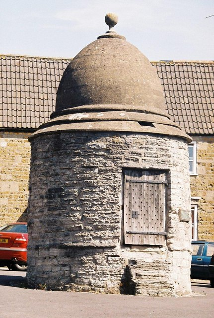 The Round House, Castle Cary, Somerset. A village lock-up built in 1779.